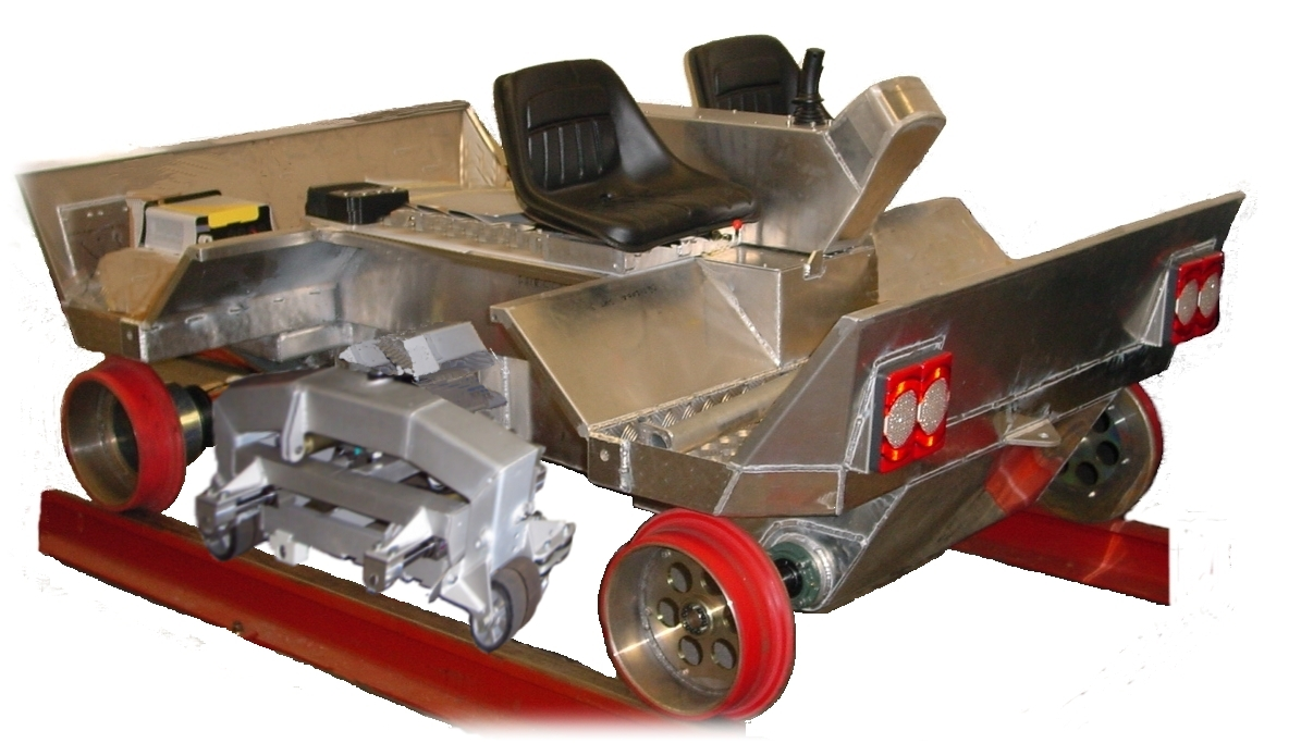 Battery powered ultrasonic RFD rail bound